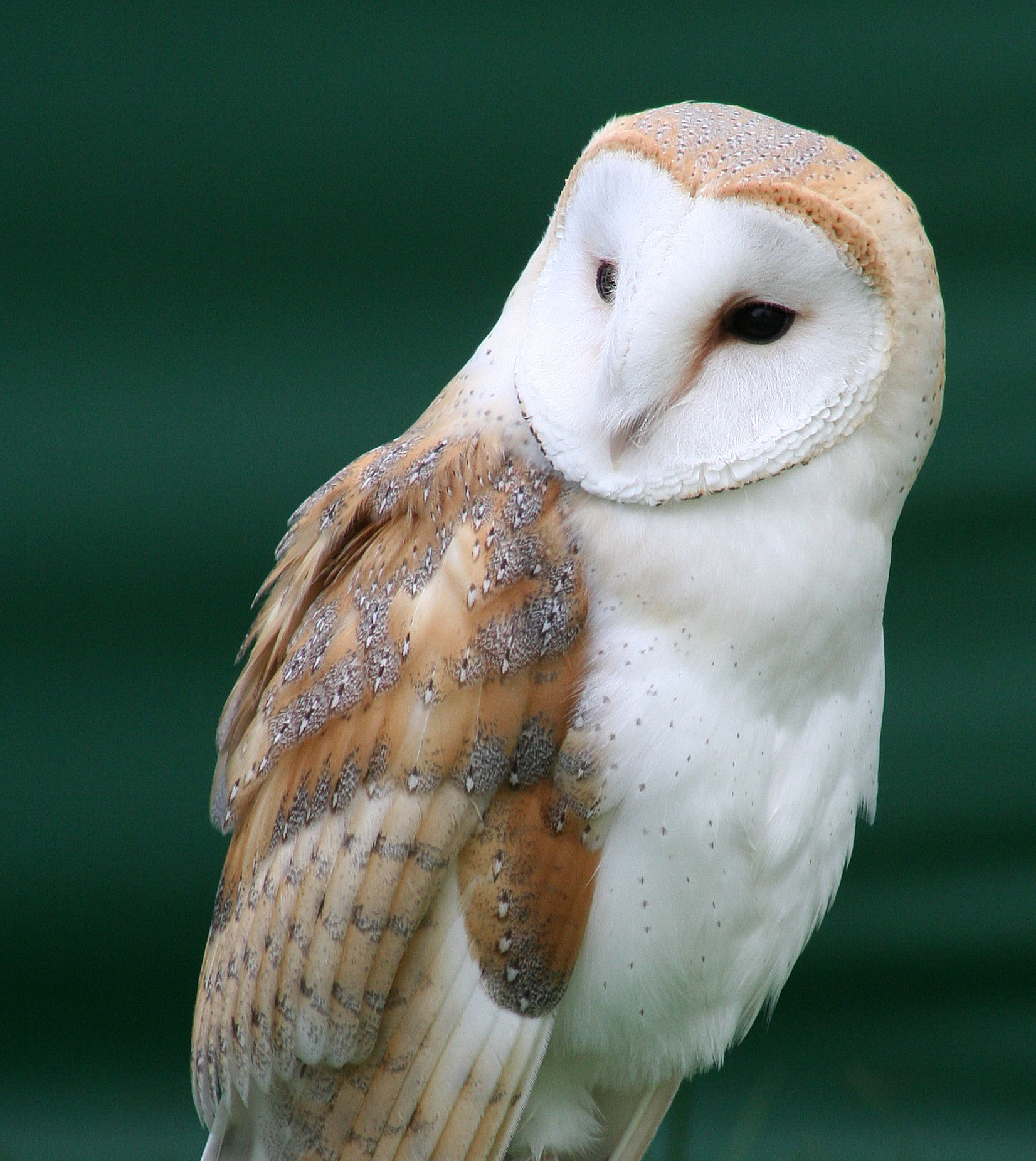 Common Barn Owl. Captive, Lower Brockhampton falconry display, England.